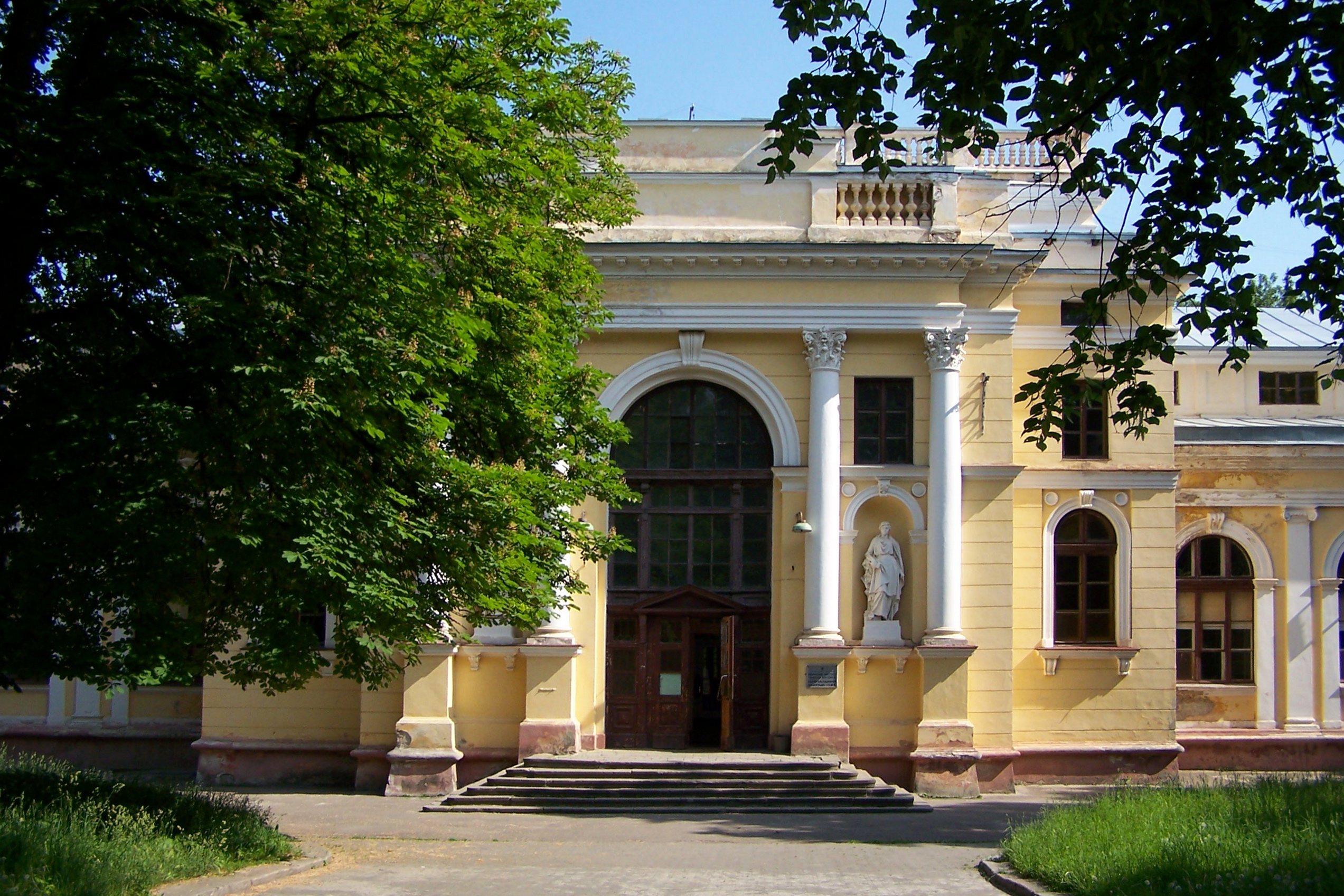 Stryjski Park in Lviv (Ukraine).